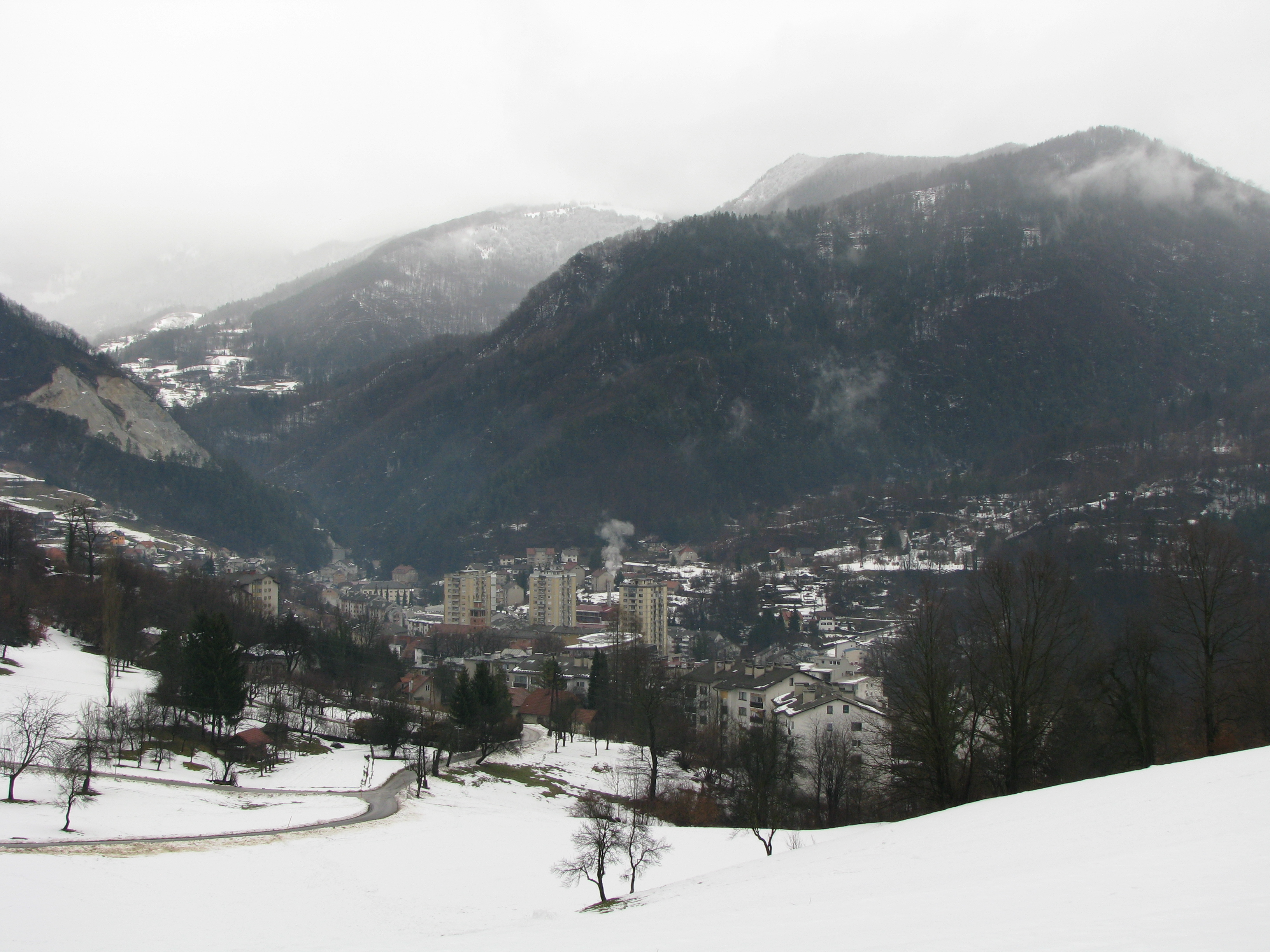 Hrastnik, administrative centre of the town